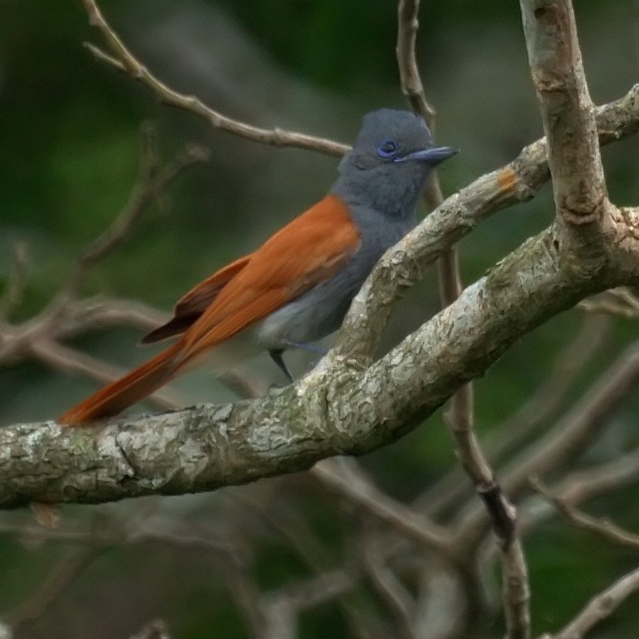 An African Paradise Flycatcher near Lake Sibhayi, KwaZulu-Natal, South Africa.